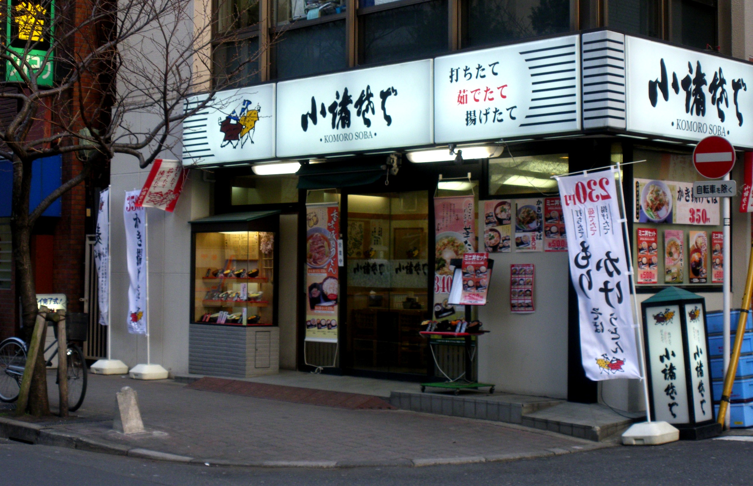 A photo of Komiro Soba Kandasurugadai branch shop,Kandasurugadai,Chiyoda-ku,Tokyo,Japan.